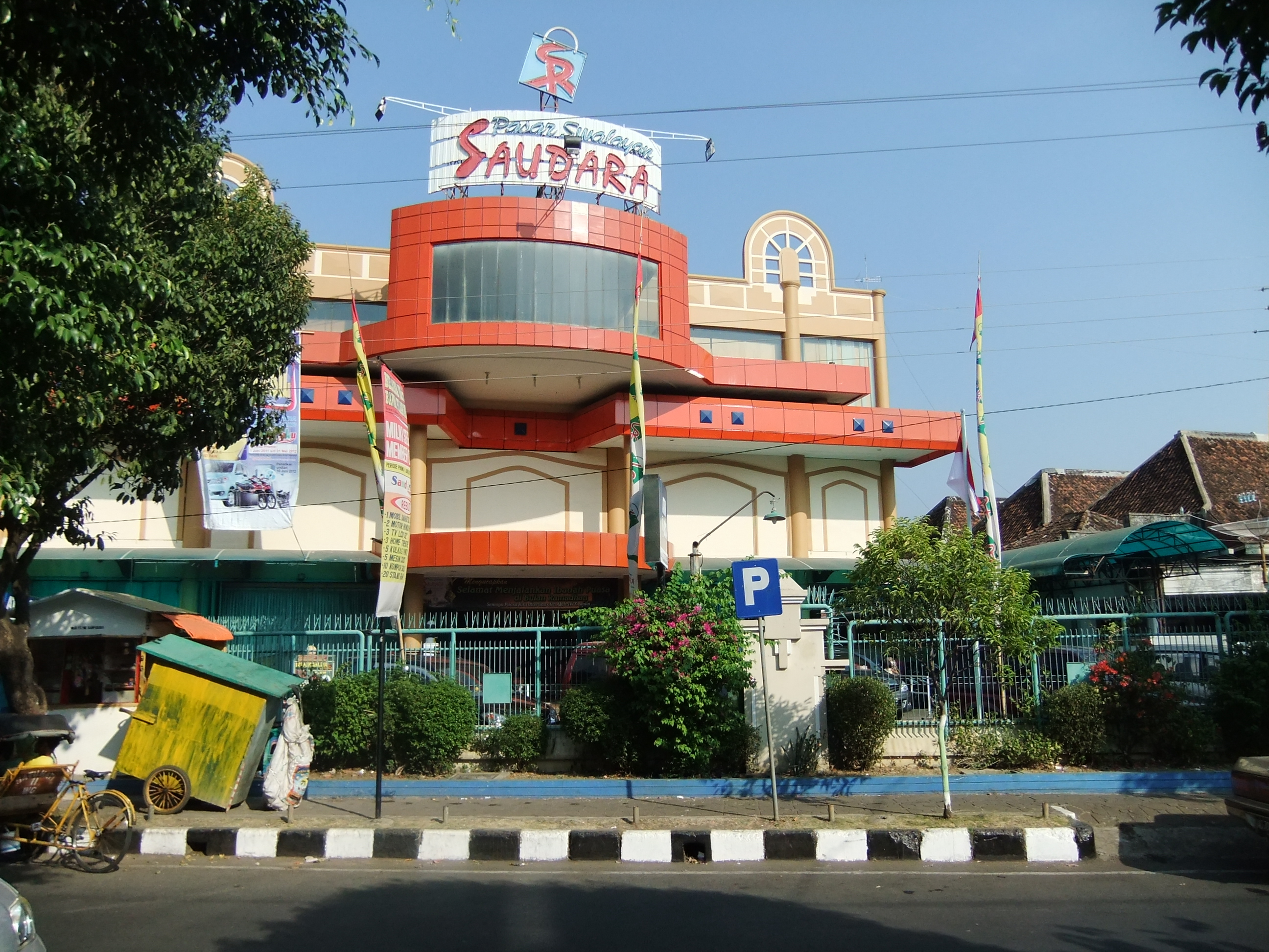 Saudara Supermarket, Jepara